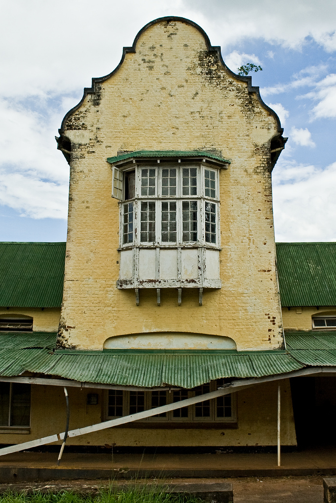 House facade with bay window in Zomba, Malawi. Photographer's caption: The city centre of Zomba looked like something straight out of an old western movie. This Photograph was taken during the Virus Free Generation Hip-Hop Tour in Malawi